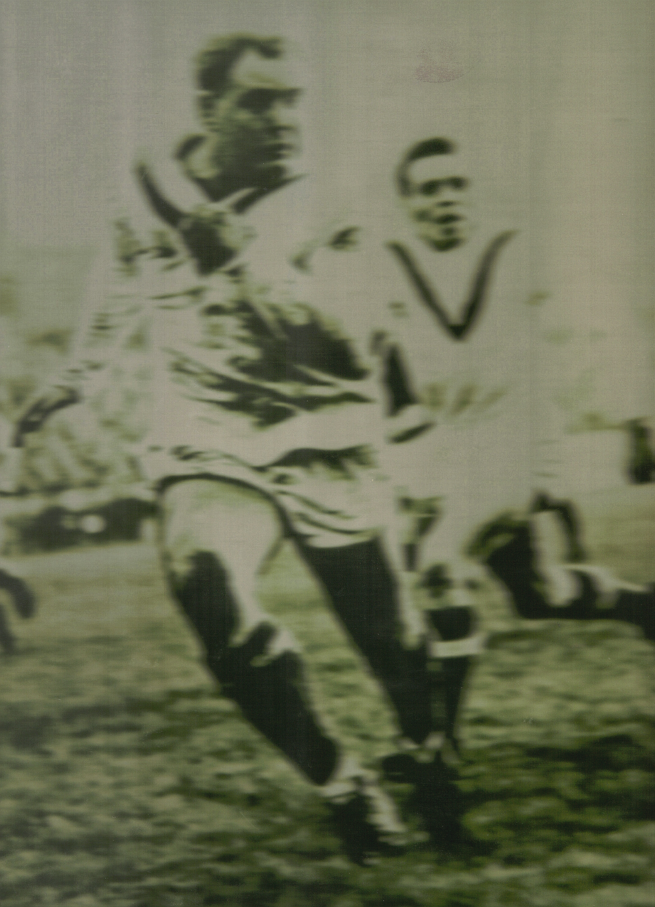 Photograph of Mr Ken Roberts (Great Britain Rugby League Player)1955-1963 Swinton, 1963-1967 Halifax, 1967-1968 Bradford Northern, 1968-1969 Rochdale Hornets, 1969-1971 Salford